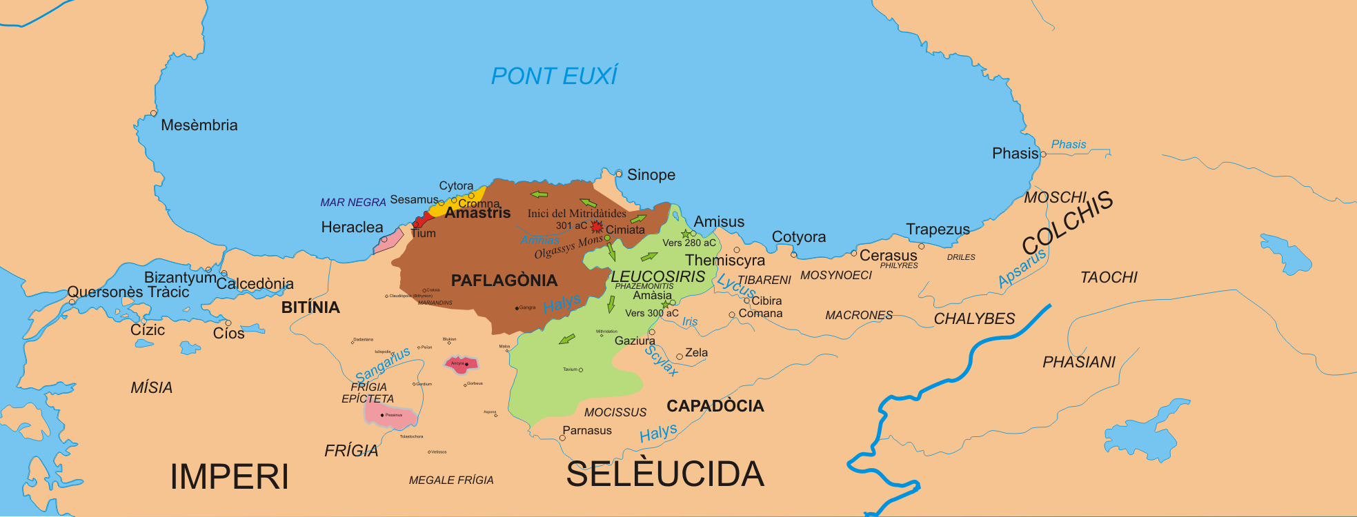 Pontus 301-270 BC